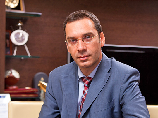 Bulgarian politician and mayor of Burgas, Dimitar Nikolov